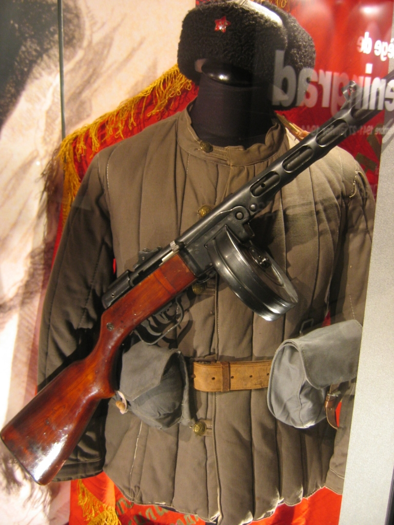 Soviet army uniform (1939-1945) with PPSh-41 submachinegun. Memorial de la Paix, Caen